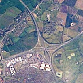 Ariel photo of the Almondsbury Interchange (M4 and M5) in northern Bristol.